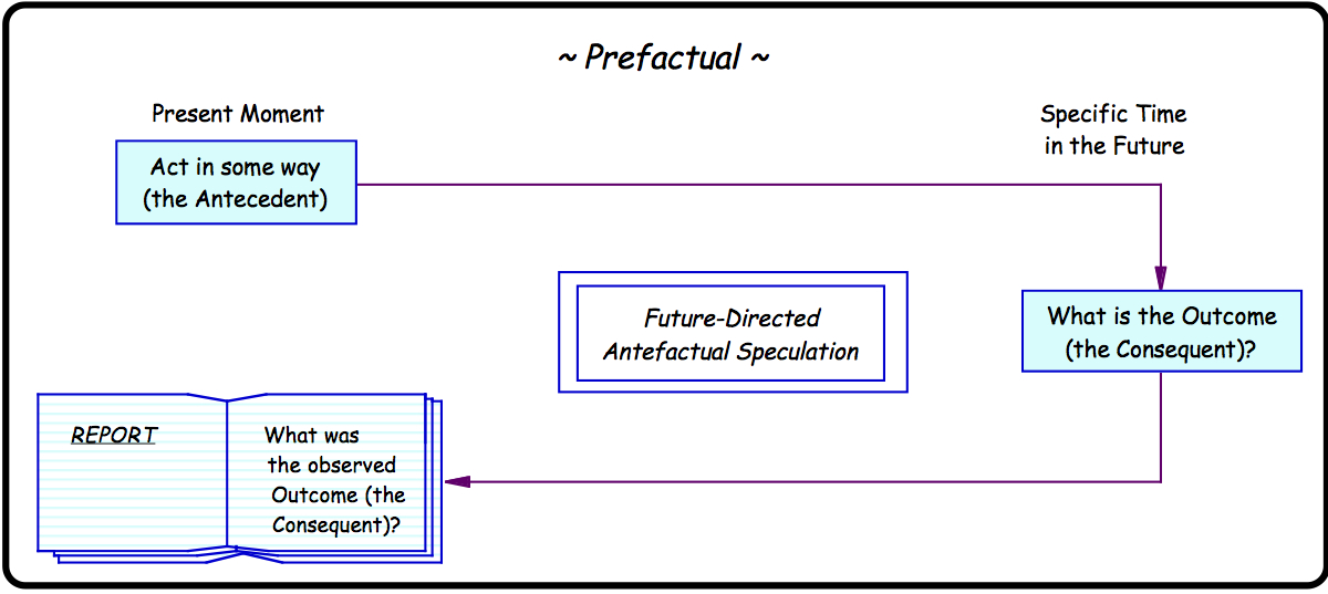 Taken from page 143 of Yeates, L.B., Thought Experimentation: A Cognitive Approach, Graduate Diploma in Arts (By Research) dissertation, University of New South Wales, 2004.